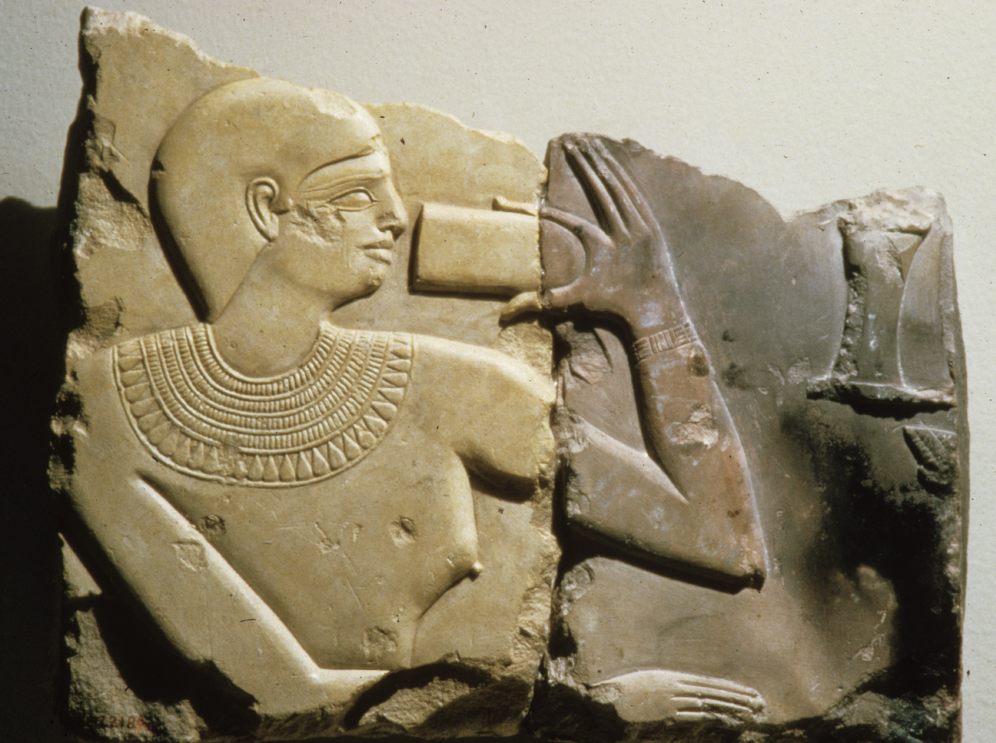 Stela, Henenu